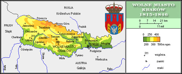 Map of the Free City of Cracow 1815-1846